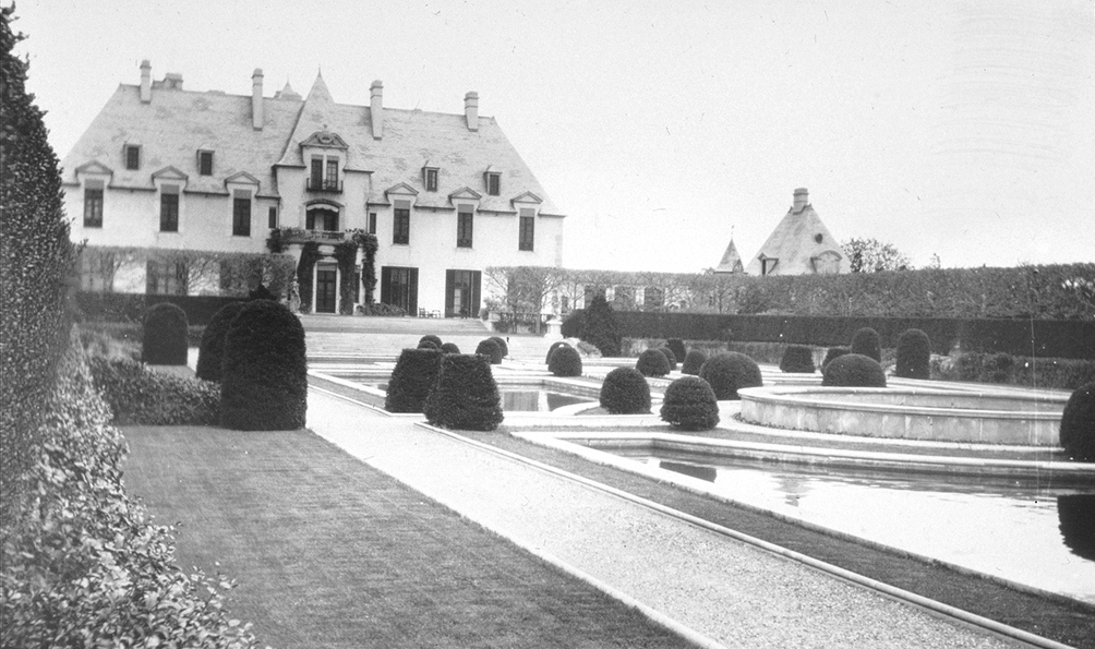 Oheka Castle, Long Island, New York, built by Otto Hermann Kahn.